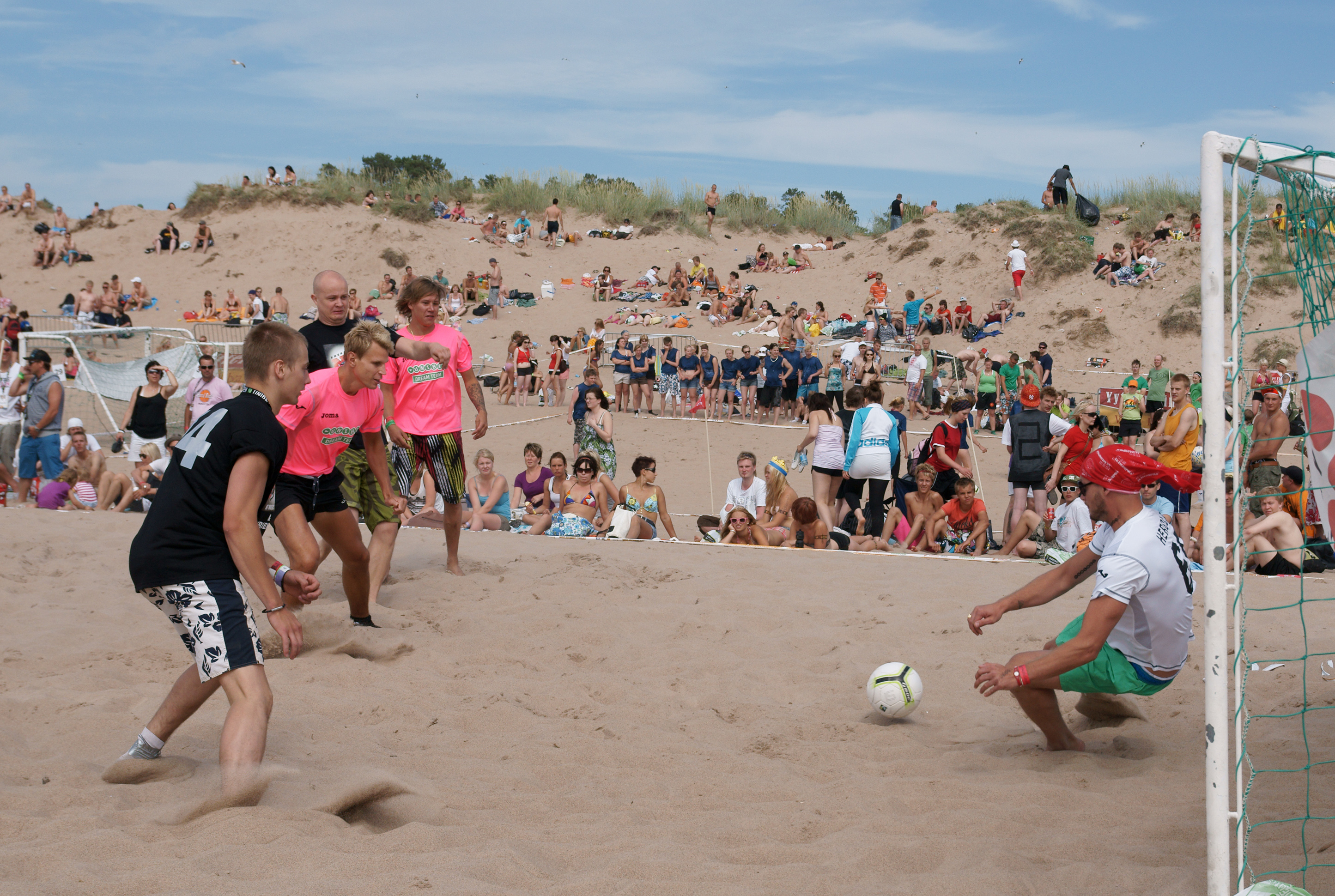 Unibet Dream Team playing beach soccer in Yyteri beachfutis.